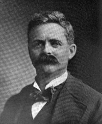 Barber as Republican nominee for reelection as Vermont State Auditor, 1900